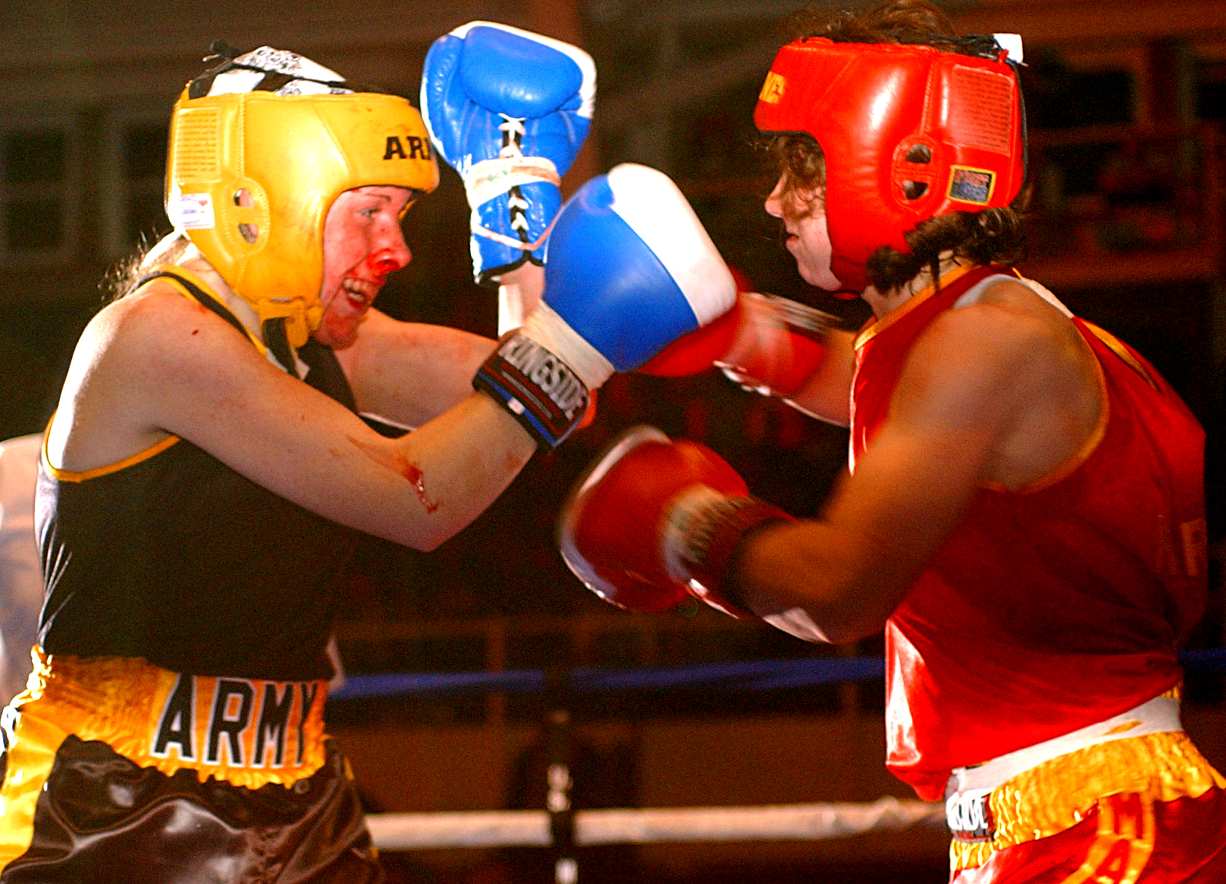 Cpl. Alisson Fasano (right), swings a right hook at Army Pfc. Raelina Shinn during a recent bout. The pair made history by being the first female boxers to fight in the Armed Forces Boxing Championships.